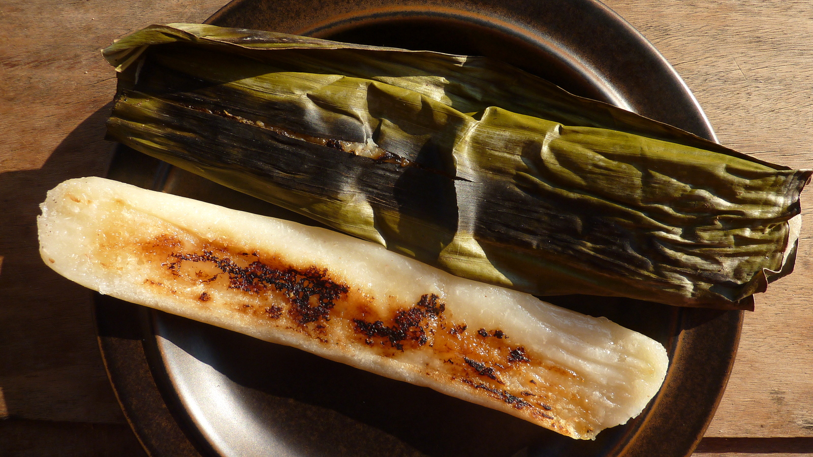 'Lad's foot', traditional Bahian breakfast treat.